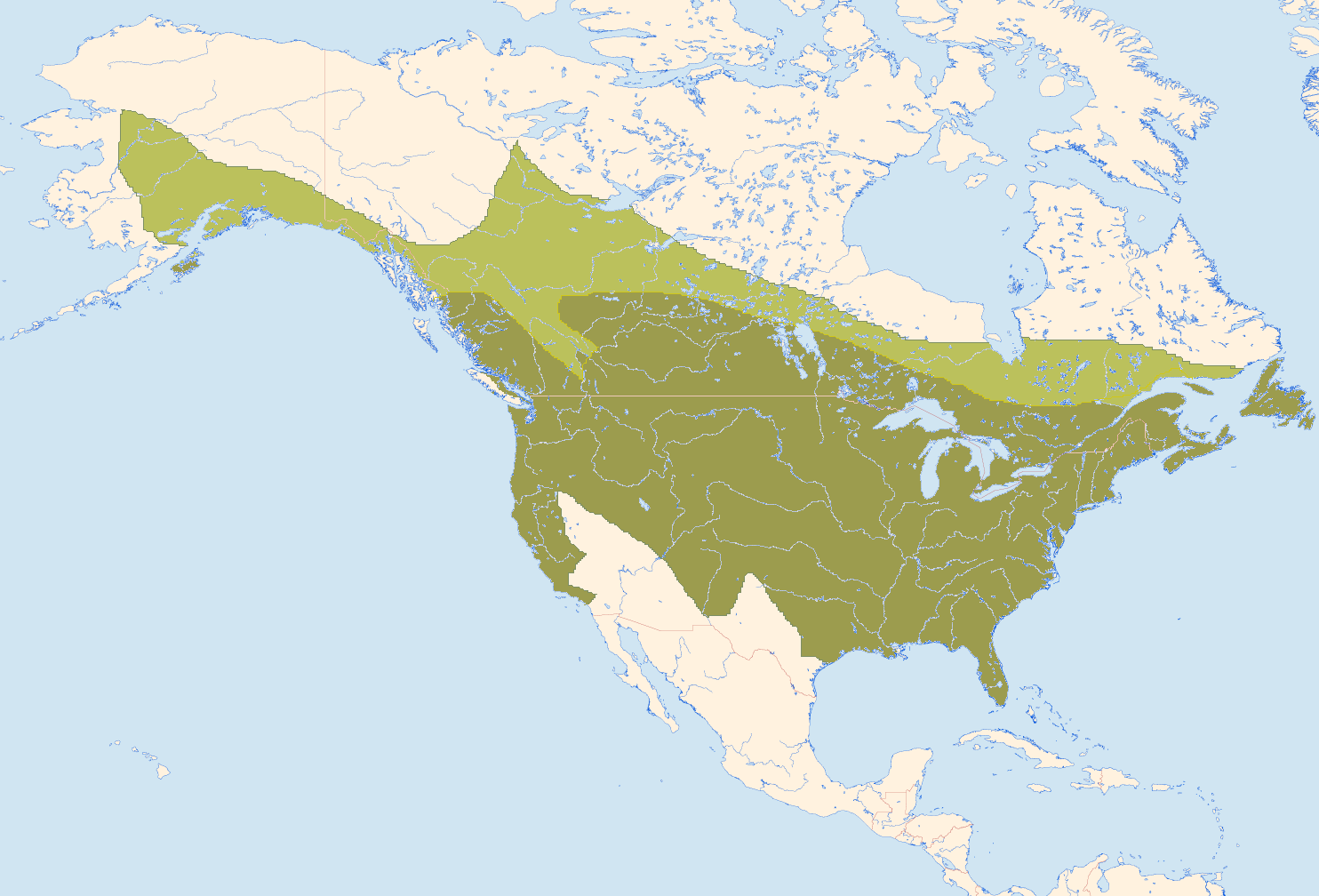 Range Map of Picoides pubescens